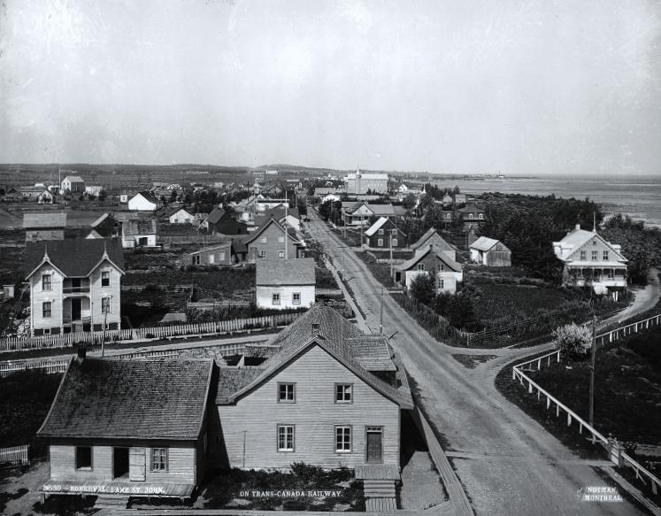 Photograph, Roberval, Lake St. John, QC, about 1903, Wm. Notman & Son, Silver salts on glass - Gelatin dry plate process - 20 x 25 cm